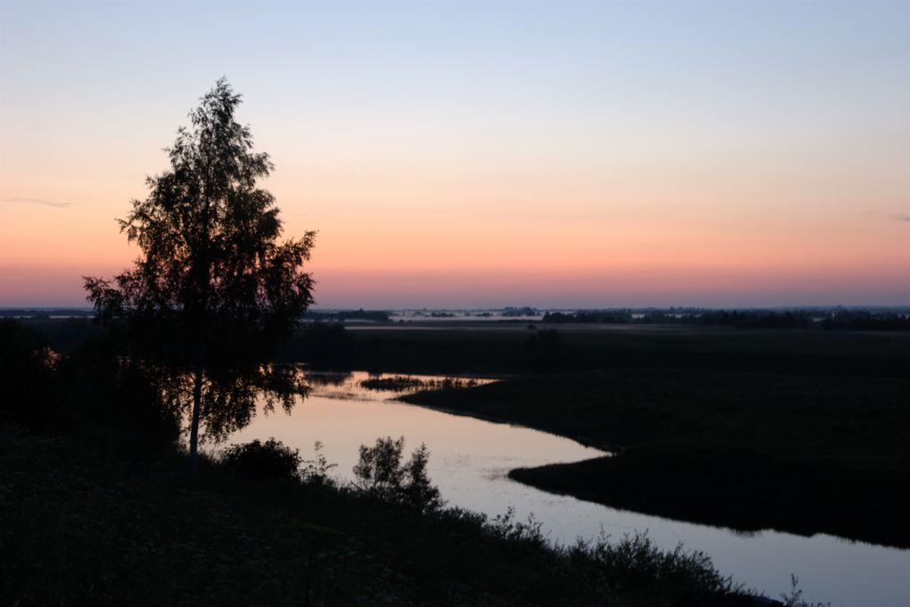 Cherevkovo, Arkhangelsk region, Russia. View to Kotische lake.